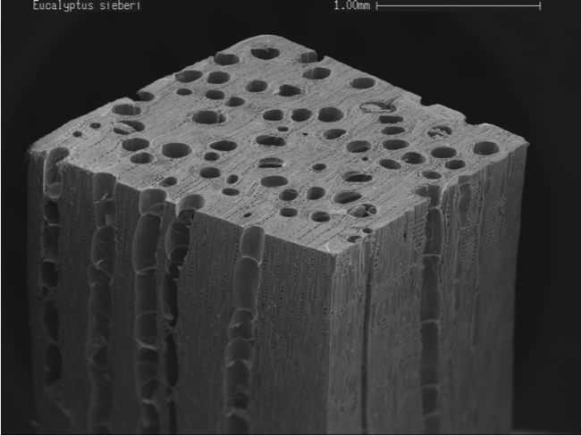 Scanning Electron Microscopy image of large open ‘pores’ in a Eucalyptus sieberi